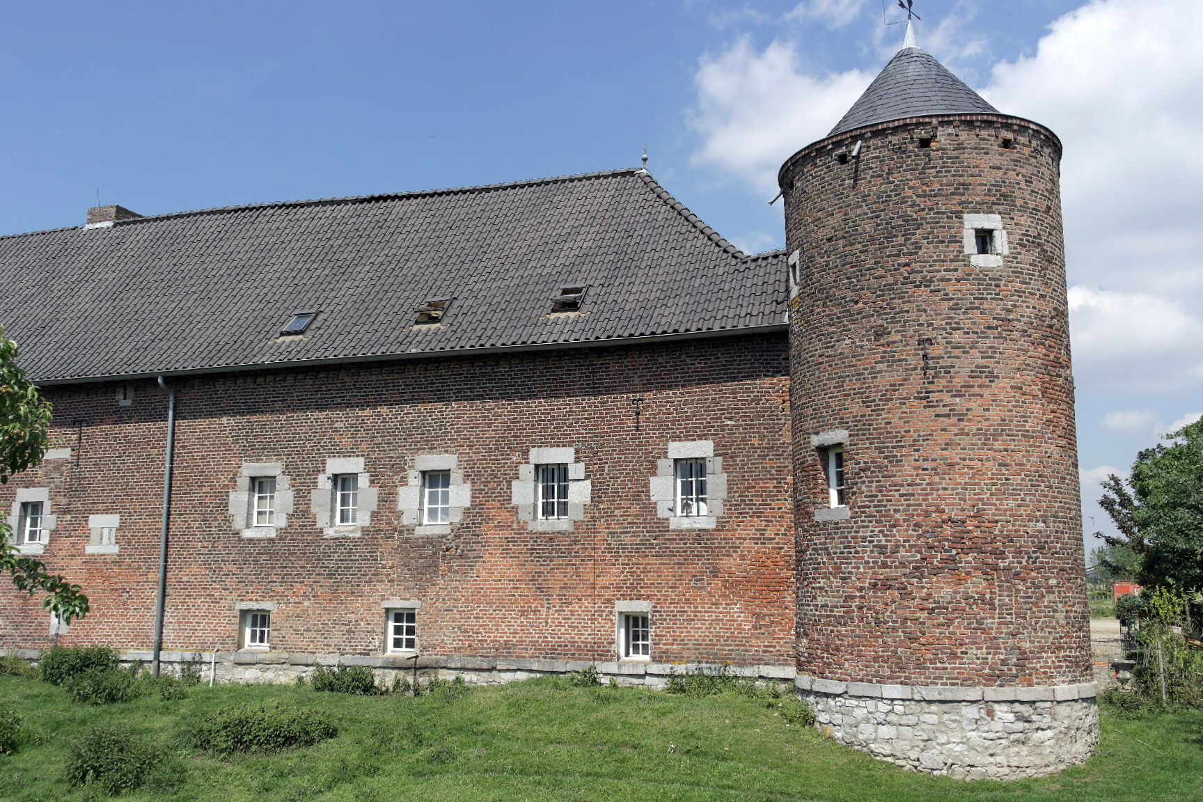 Maastricht, the Netherlands. View of the medieval tower and southwestern gable of castle farm Hartelstein near the village of Itteren in the northern tip of the municipality of Maastricht. The farm is the only remaining part of a medieval castle.